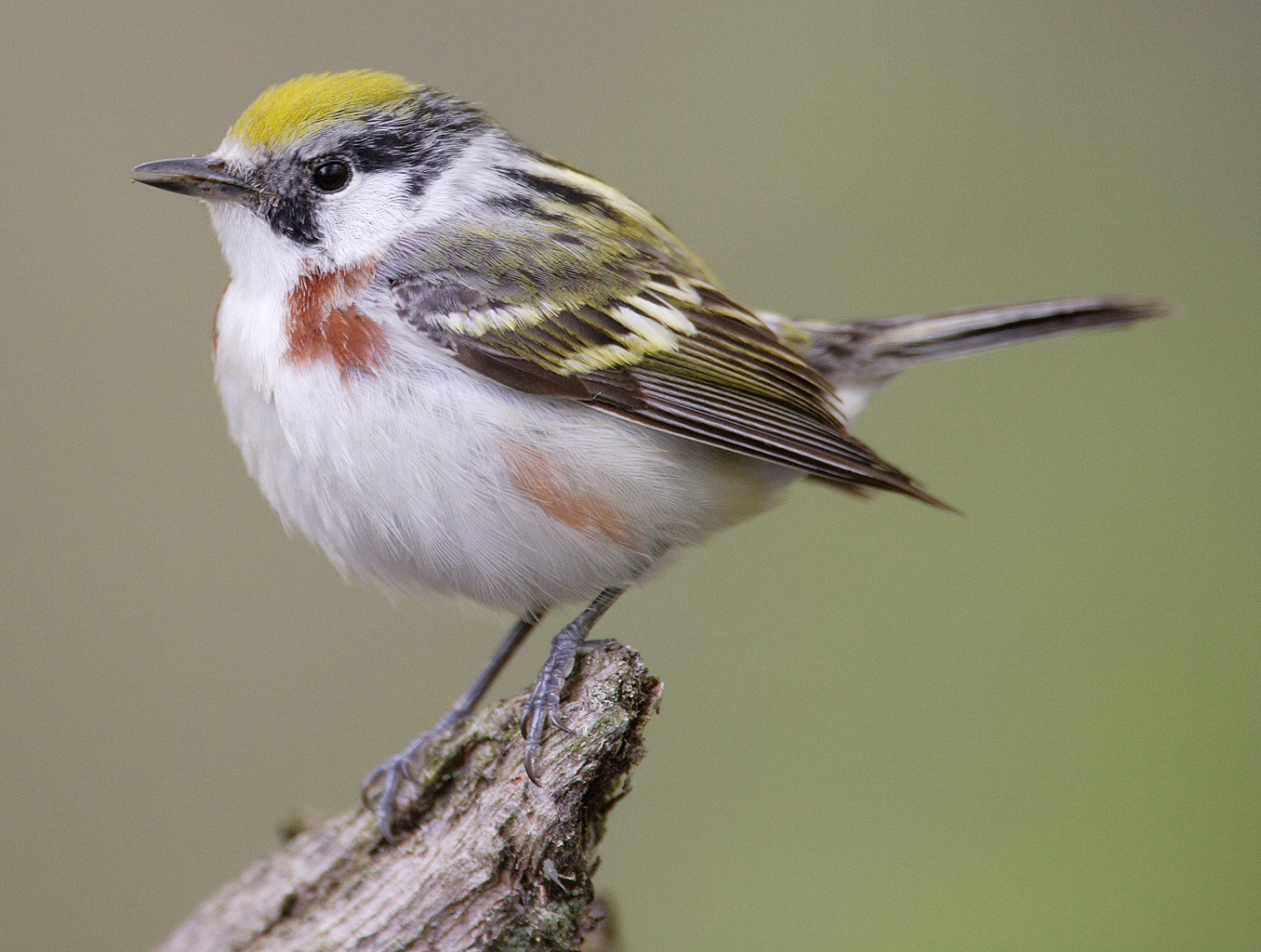 Chestnut-sided Warbler (Dendroica pensylvanica). Rondeau Provincial Park, Ontario, Canada.